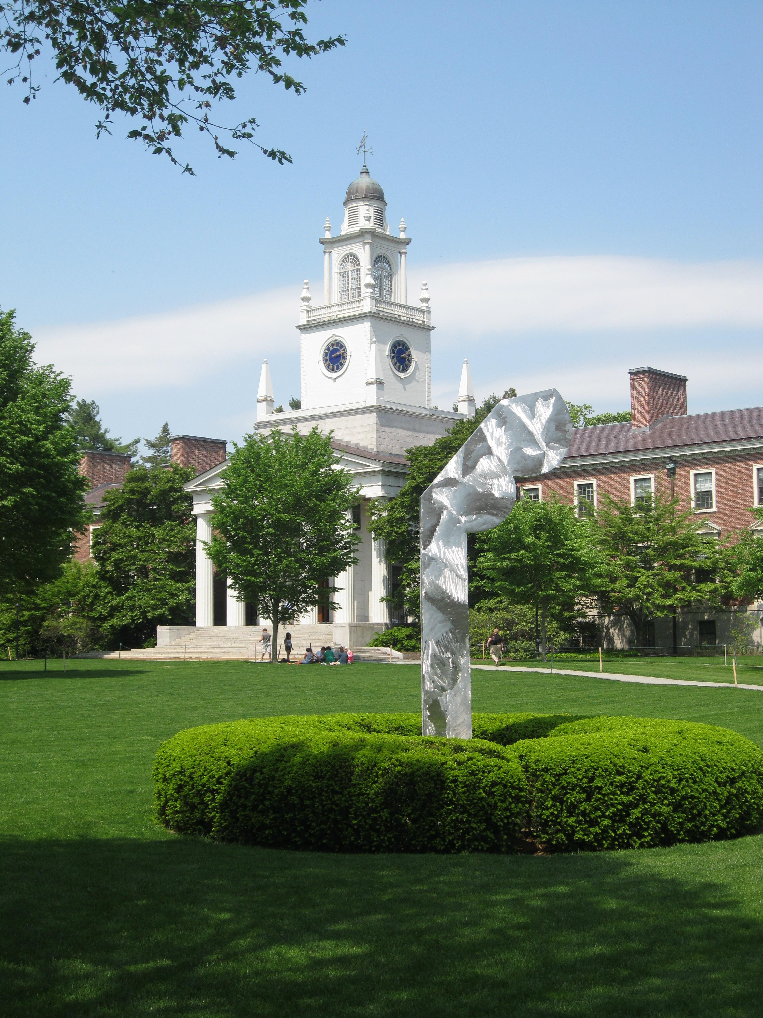 A view of Samuel Phillips Hall (background) and the Bicentennial Statue (foreground), at Phillips Academy in Andover, Massachusetts.